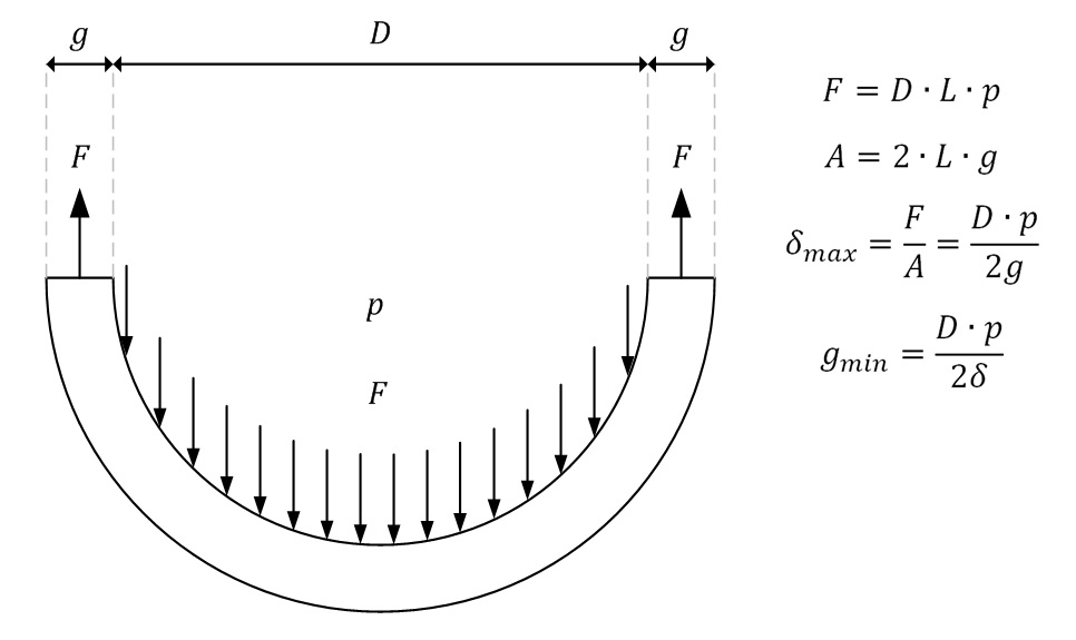 Stress in a cylindrical pressure vessel